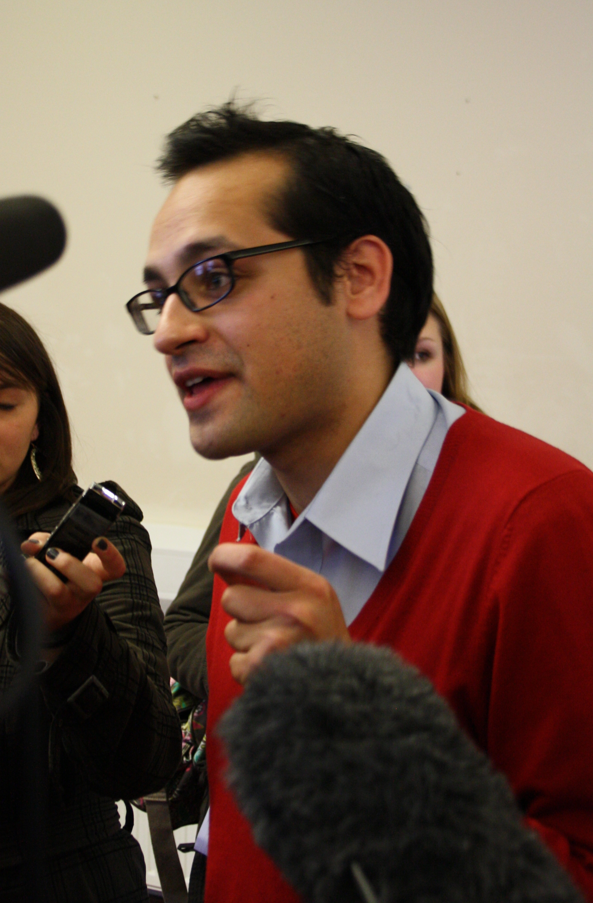 Aaron Porter, President of NUS (National Union of Students), at a Press Conference before Demo2010. Which famously culminated in the protests at Millbank Tower. In the conference Porter predicted 22,000 would march. By the end of the day the number was revised to over 50,000.